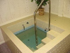 Taken by me, Erzeszut on 8/10/2006, and released into the public domain. Mikveh of the Beth-El Temple in Birmingham, Alabama Already used in the English WP